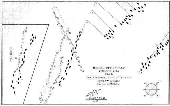 Battle of Ushant (1778) Fig. 1. 5:30-11:00 am